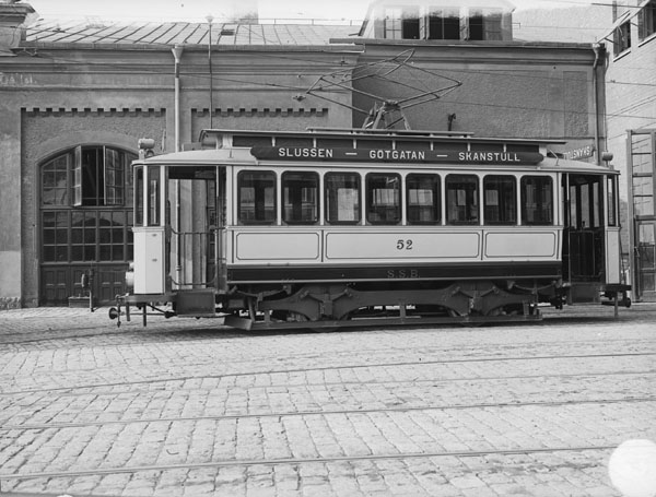 SSB tram Class A5